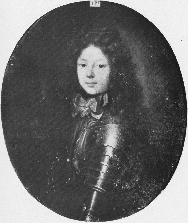 Portrait of Louis de Rouvroy, duc de Saint-Simon (1675–1755)